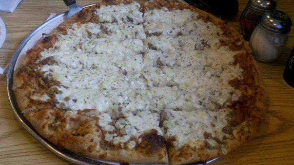 Example of Quad City-style pizza from a local Quad City pizzera..